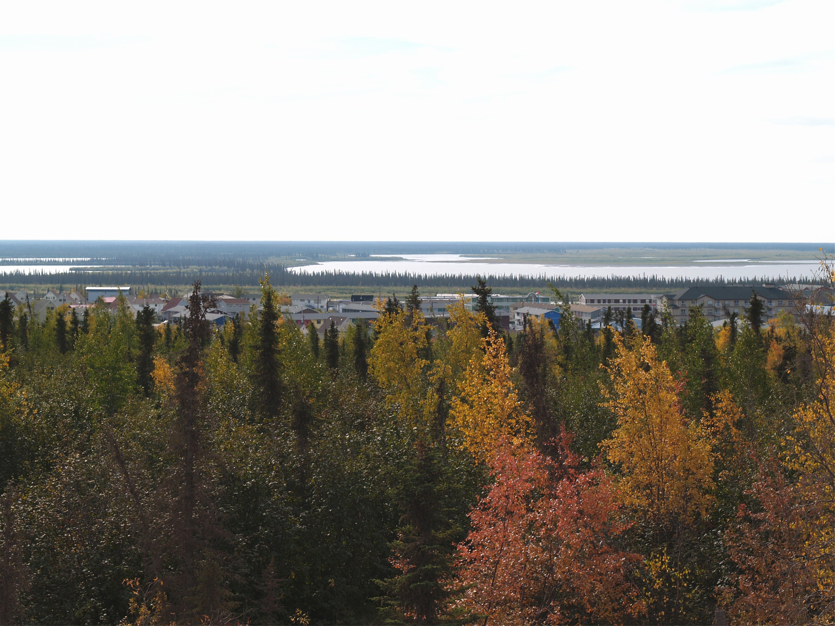 Overlooking Inuvik with the fall colors in the foreground.